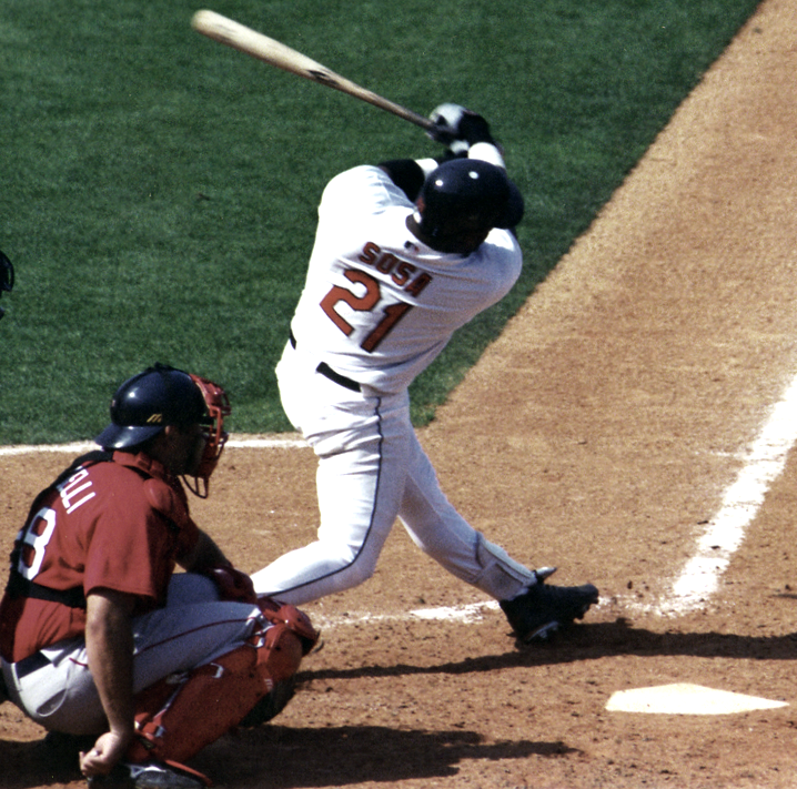 Sammy Sosa taking one of his famous mighty swings, Spring Training 2005.